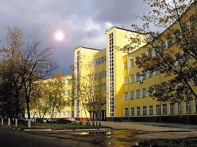 MTUCI